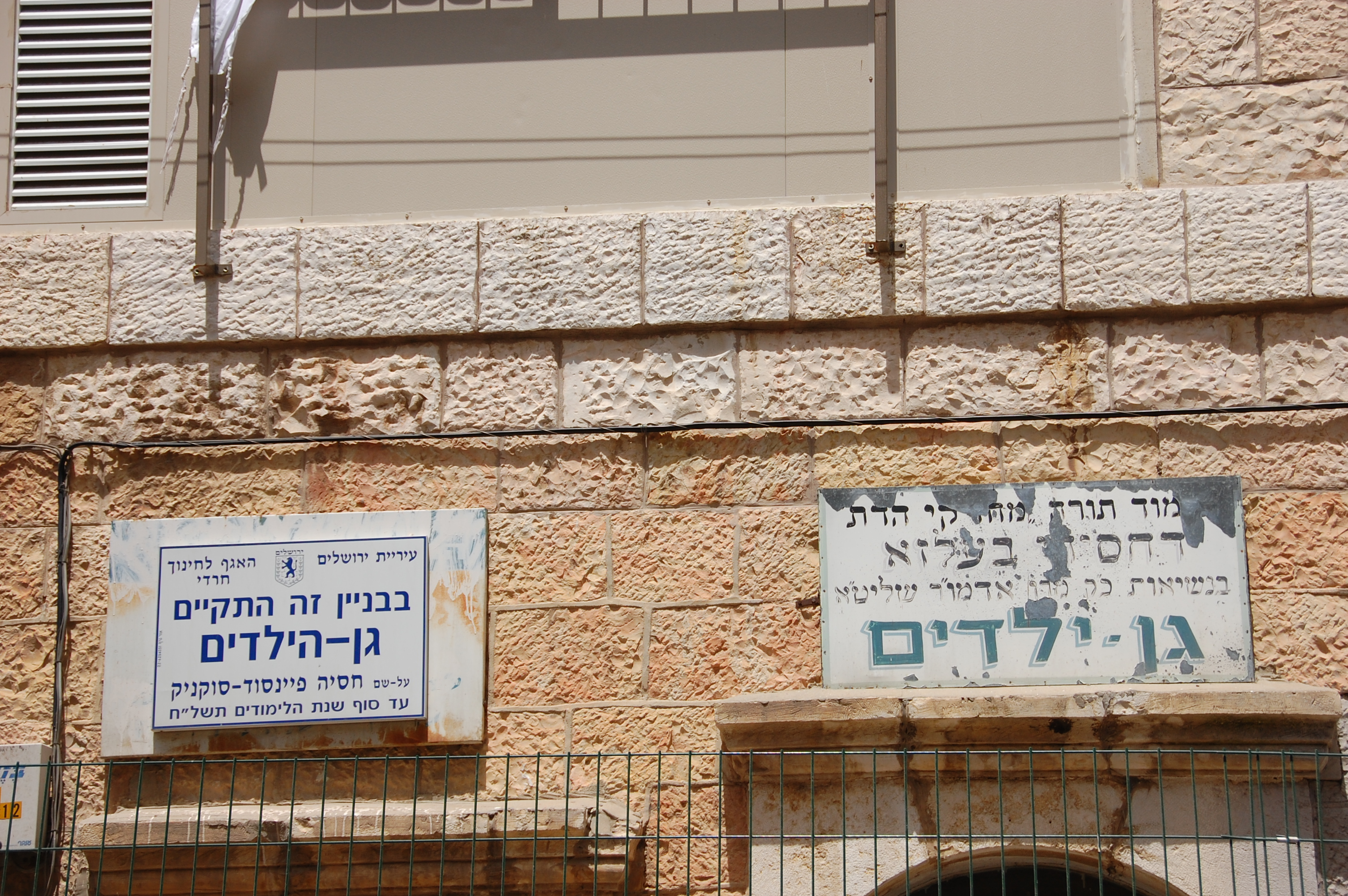 First kindergarten outside the Old City walls in the Zikhron Moshe neighborhood